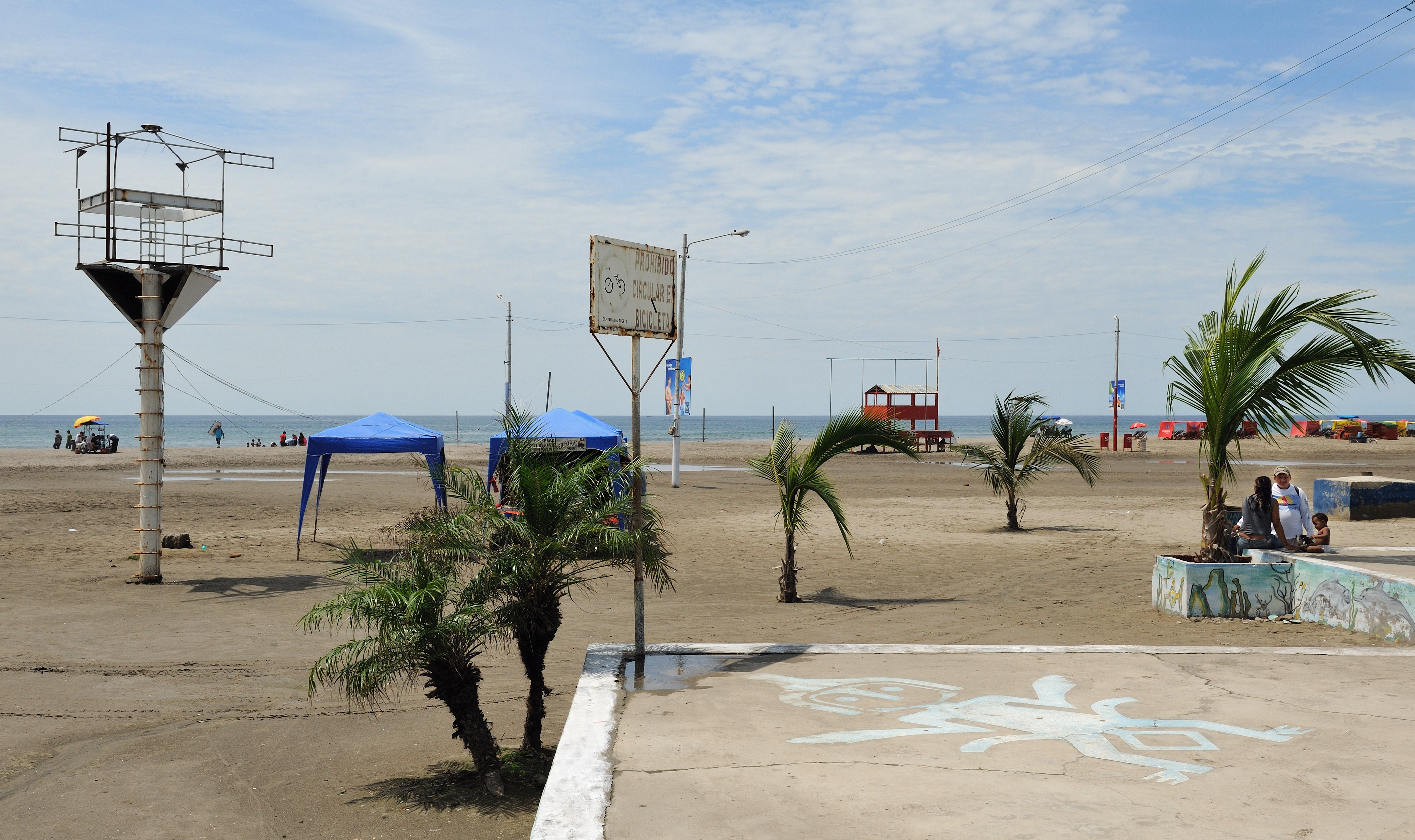 Ecuador, Manta: Murciélago beach. Pre-Incan image in the foreground.